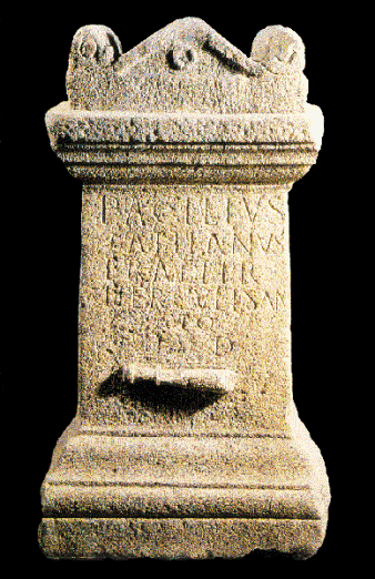 Altare di età romana da Seccheto (isola d'Elba)